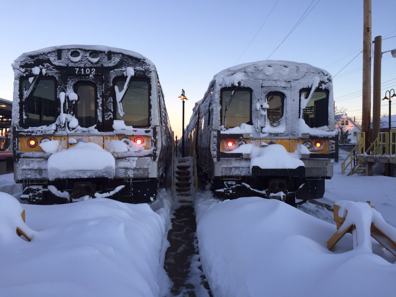 MTA Long Island Rail Road cleans up from January 23, 2016 blizzard at Hempstead. Photo: MTA Long Island Rail Road